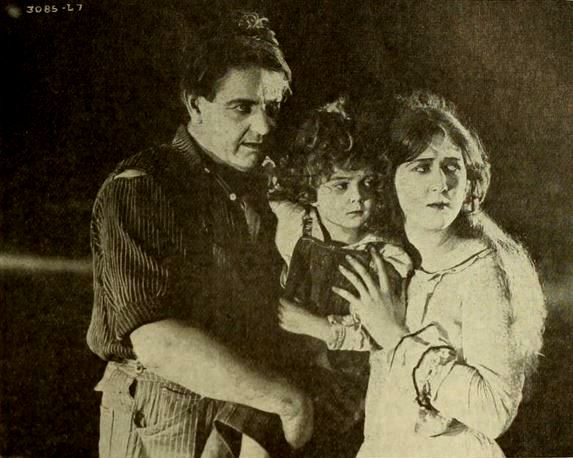 Still from the American film The Unpainted Woman (1919) with Thurston Hall, child actor Michael D. Moore, and Mary MacLaren, on page 927 of the May 10, 1919 Moving Picture World.